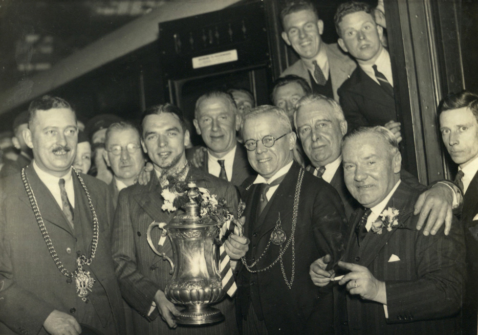 John Grantham greets the FA Cup winning Sunderland team at Newcastle Central Station on their return from Wembley, 3 May 1937 (TWAM ref. DF.GRA/5/2). Captain Raich Carter is holding the Cup. These images belong to a series of albums documenting John Grantham’s service to the City of Newcastle upon Tyne as its Sheriff 1924-1925 and its Lord Mayor 1936-1937. John Grantham was born in Blyth in 1877 and became a cinema proprietor in Newcastle. He was elected to the City Council in 1912 and became an alderman in 1932. The albums give us an interesting insight into the duties of Lord Mayor and Sheriff as well as a fascinating picture of the times. 2016 is the 800th anniversary of the creation of Newcastle's Mayoralty and Burgesses. (Copyright) We're happy for you to share these digital images within the spirit of The Commons. Please cite 'Tyne & Wear Archives & Museums' when reusing. Certain restrictions on high quality reproductions and commercial use of the original physical version apply though; if you're unsure please